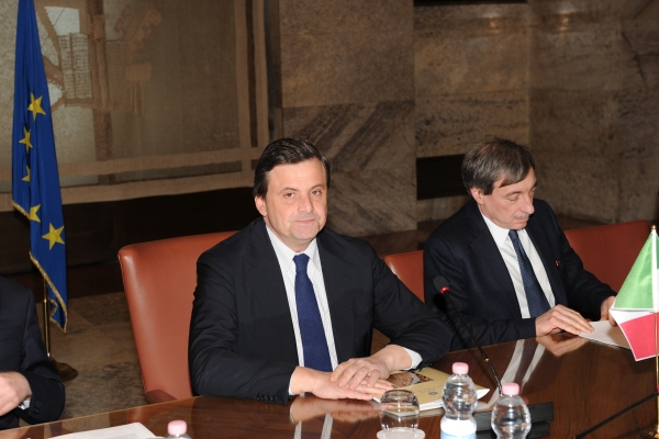 Carlo Calenda